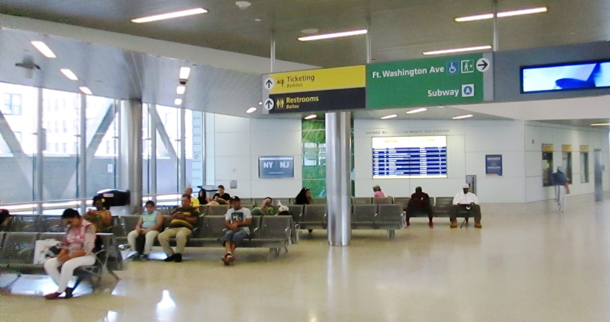 The George Washington Bridge Bus Station underwent a major renovation from 2015 to 2017. This is this renovated waiting room in 2018.